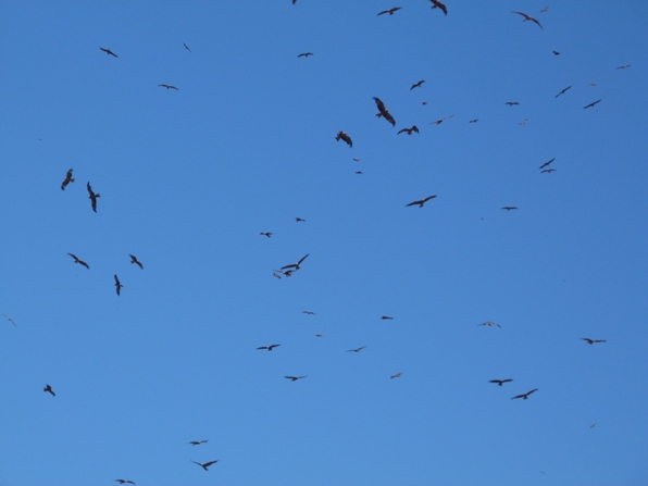 Near Tàrrega, Lleida, Catalonia.